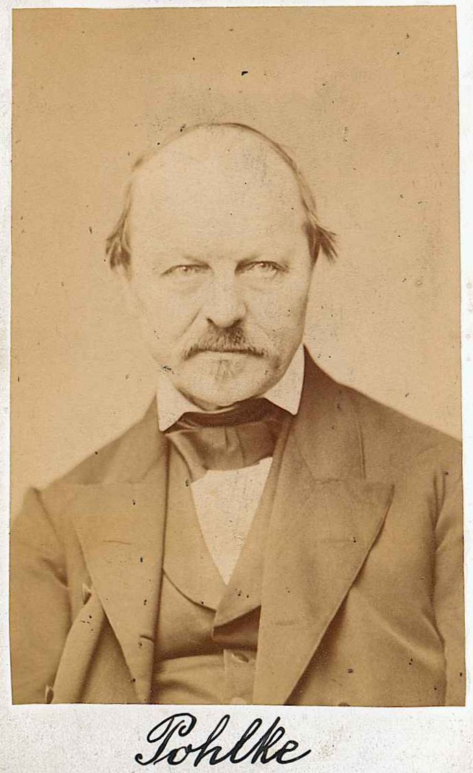 Carl Wilhelm Pohlke (1810-1876), German painter